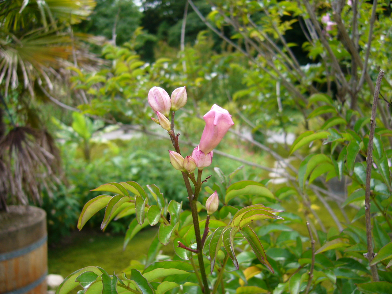 Podranea ricasoliana: Flower buds